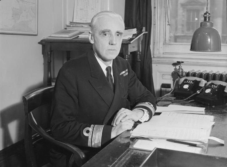 Photograph of Rear Admiral E J P Brind, CBE, Assistant Chief of Naval Staff, seated at his desk in his office at the Admiralty.